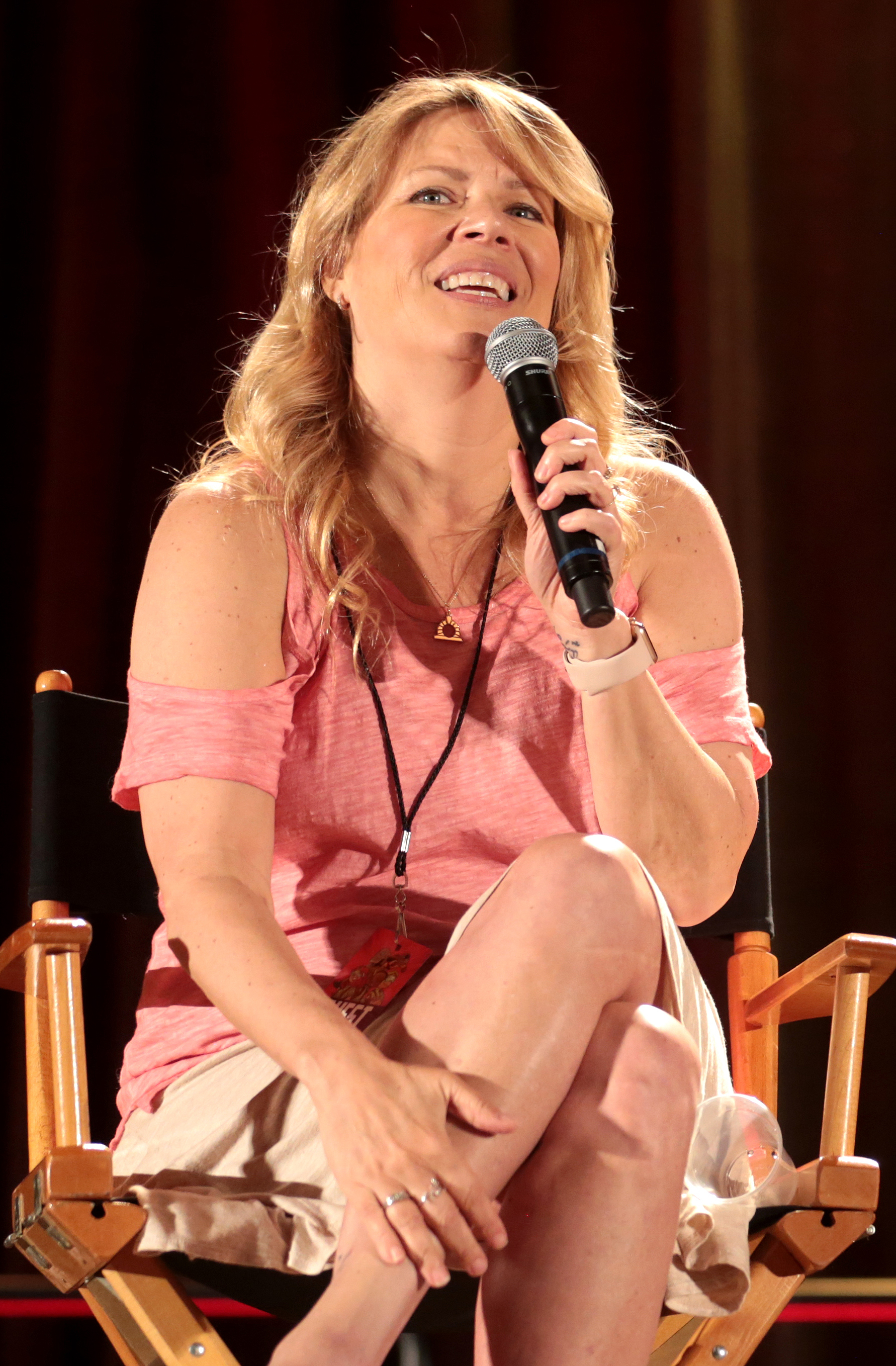 Mary Elizabeth McGlynn speaking at the 2018 Phoenix Comic Fest in Phoenix, Arizona.